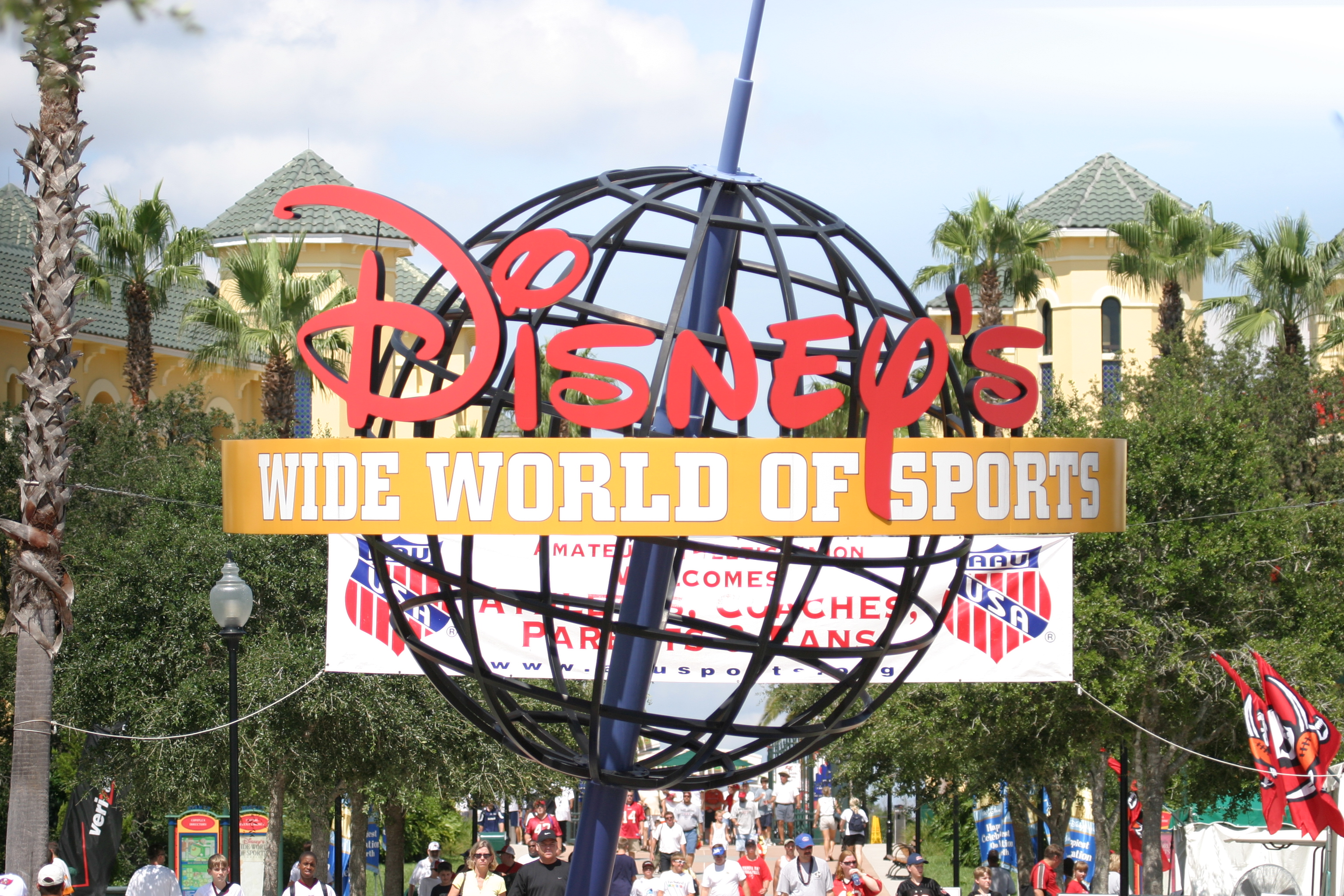 Photo of entrance to Disney's Wide World of Sports